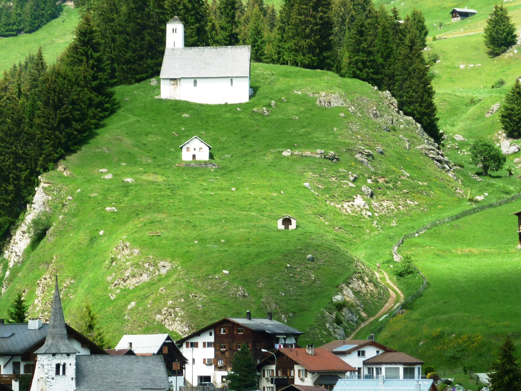 St. Eusebius, Brigels GR, Switzerland